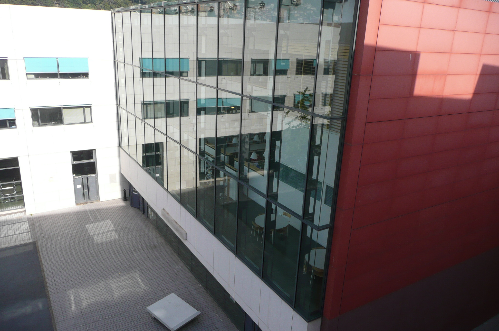 One of buildings of Saint-Jean d'Angély campus of University of Nice Sophia Antipolis, in Nice, France.